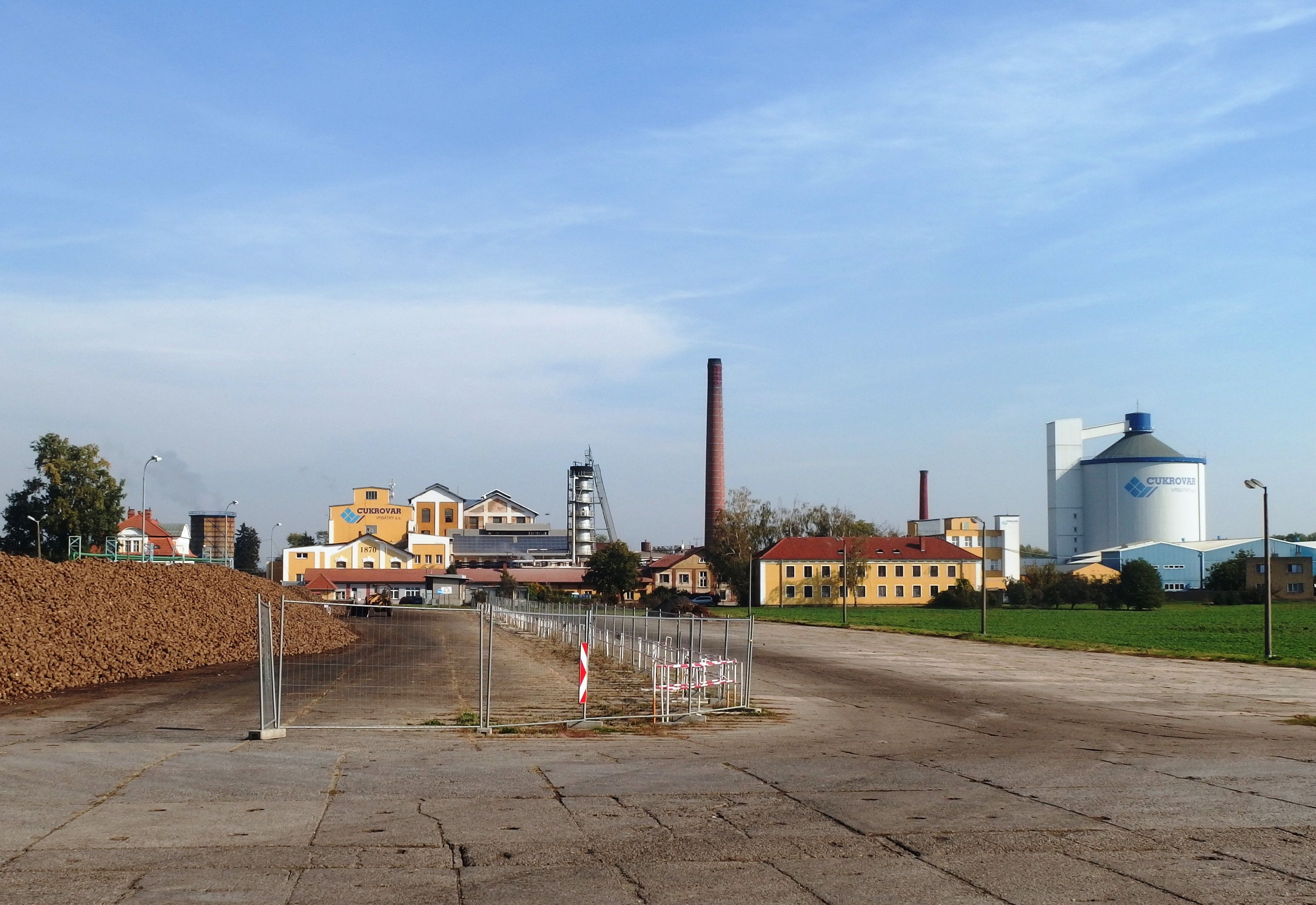 Vrbátky, Prostějov District, Czech Republic.